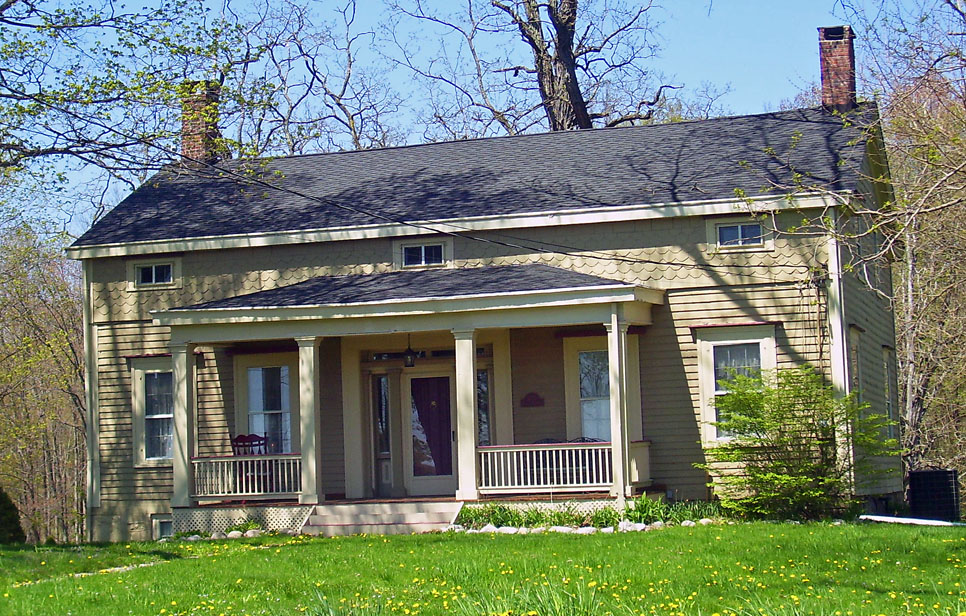 Photographed by Daniel Case 2007-05-05.